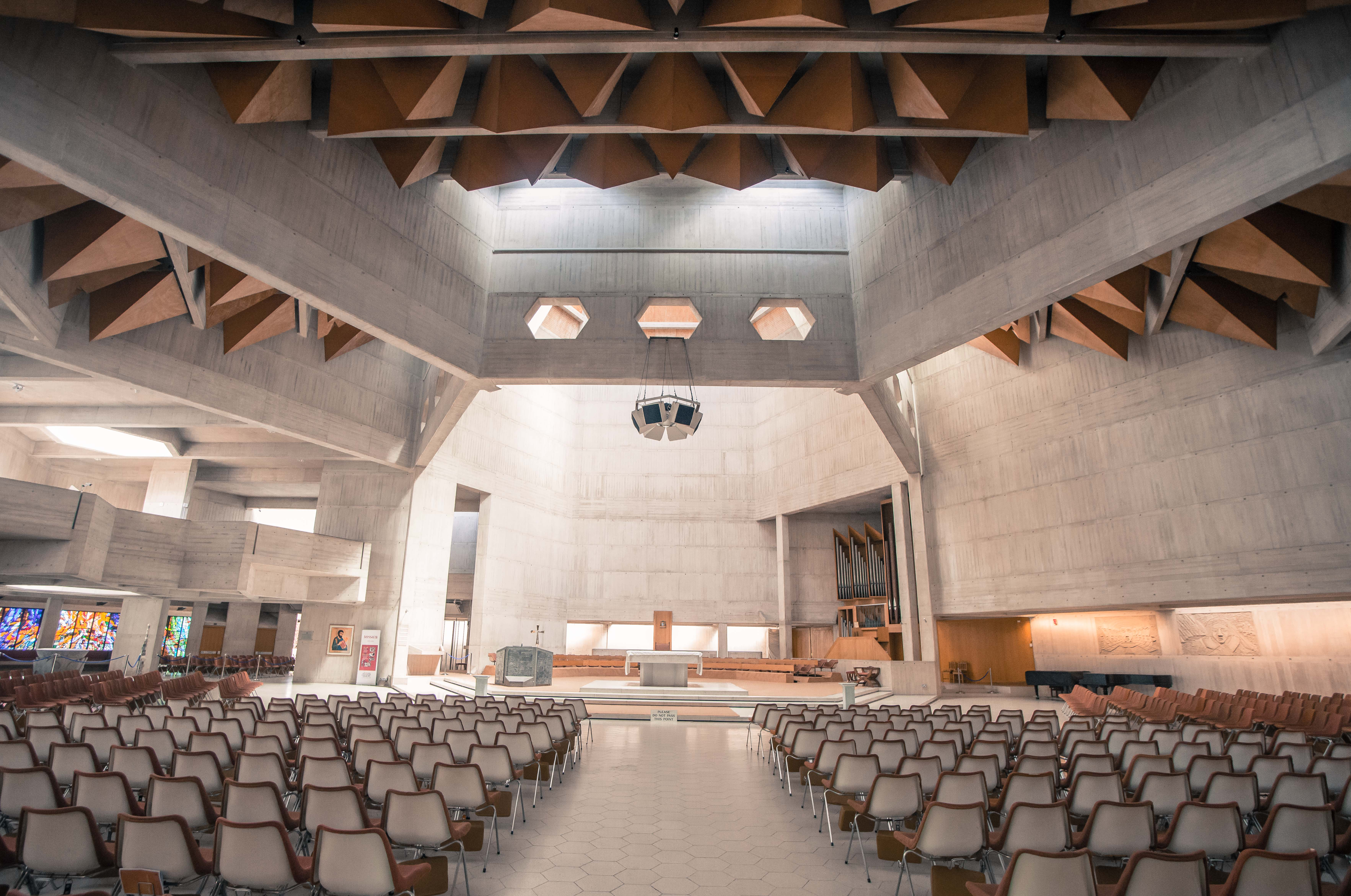 Clifton Cathedral, Bristol, UK